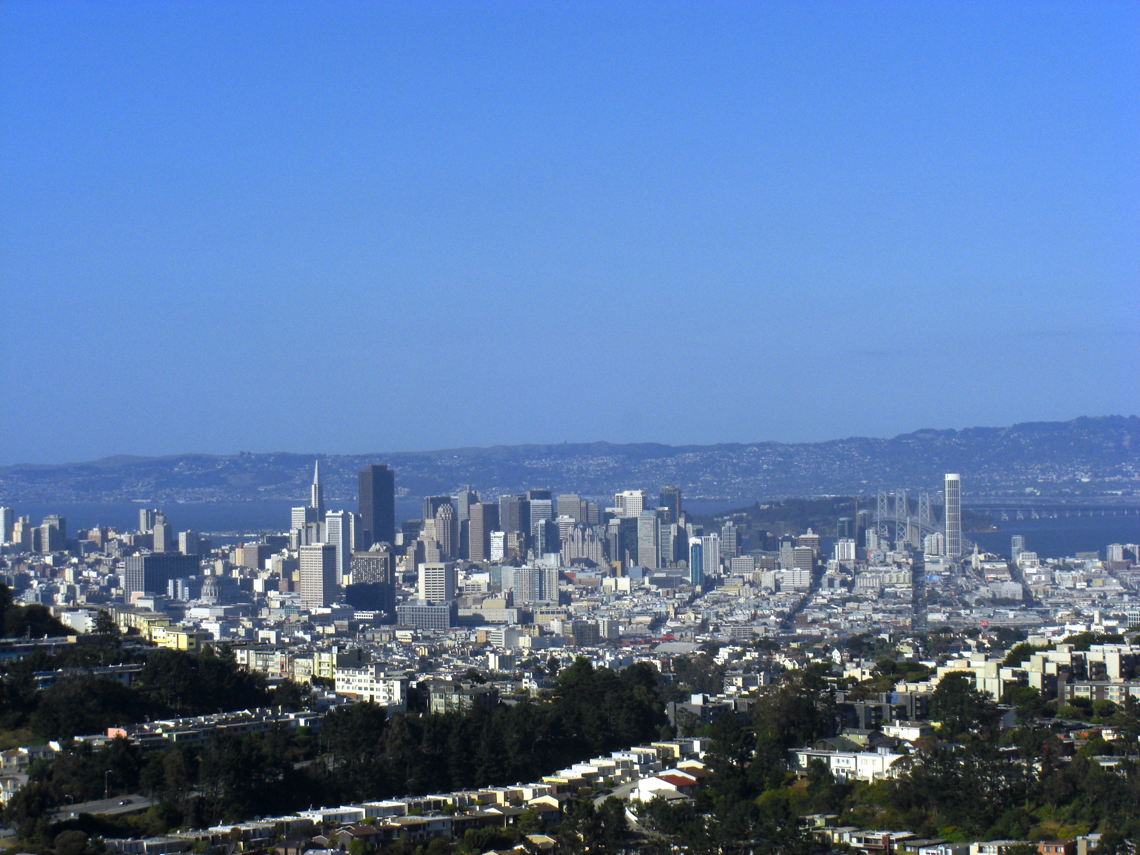 Downtown San Francisco.JPG